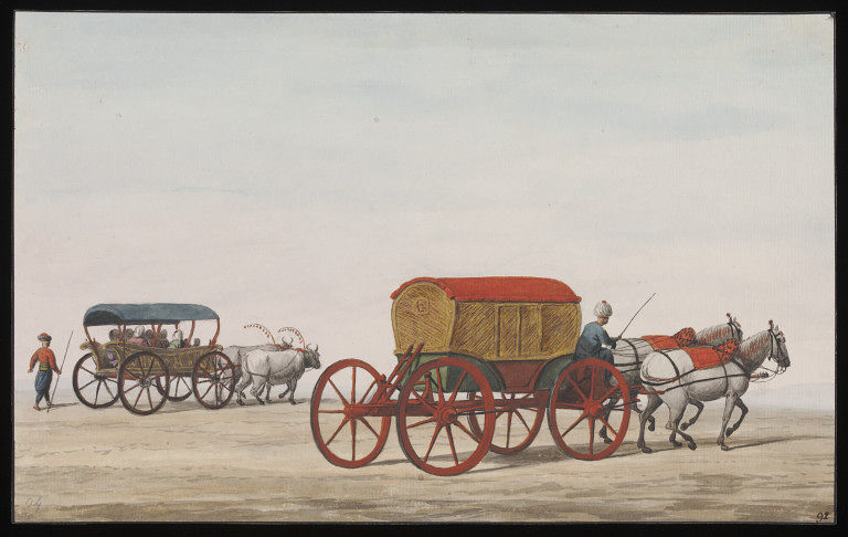 Two Ottoman araba carriages